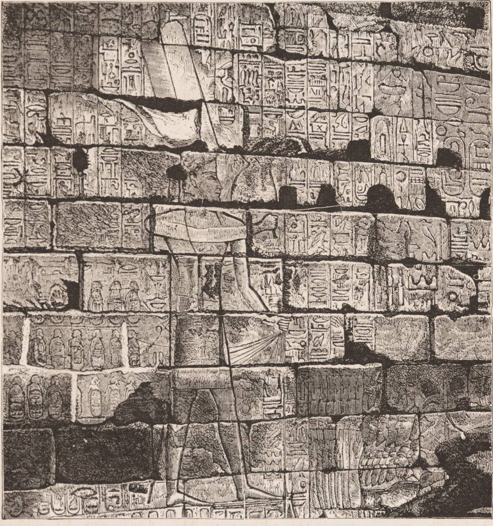 SHISHAK AND HIS CAPTIVES ON SCULPTURED WALL AT KARNAK.